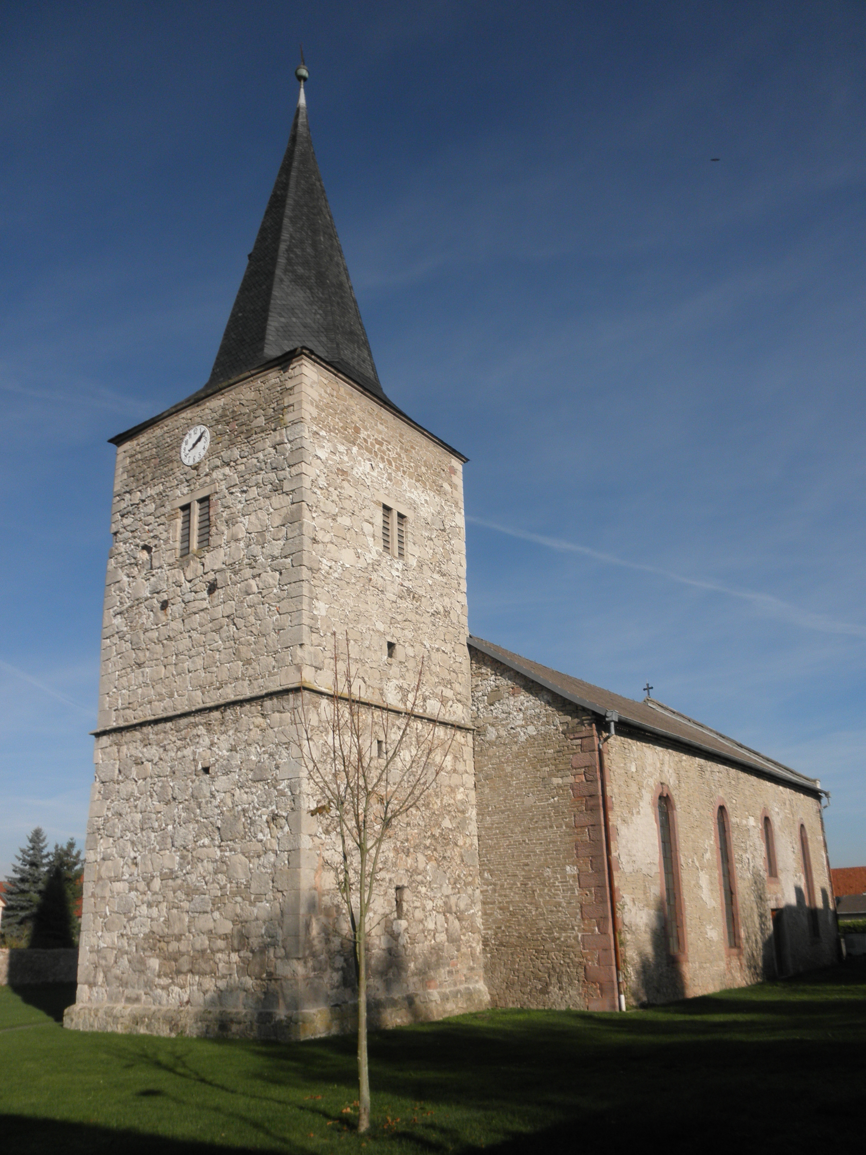 Church in Mackenrode (Hohenstein) in Thuringia